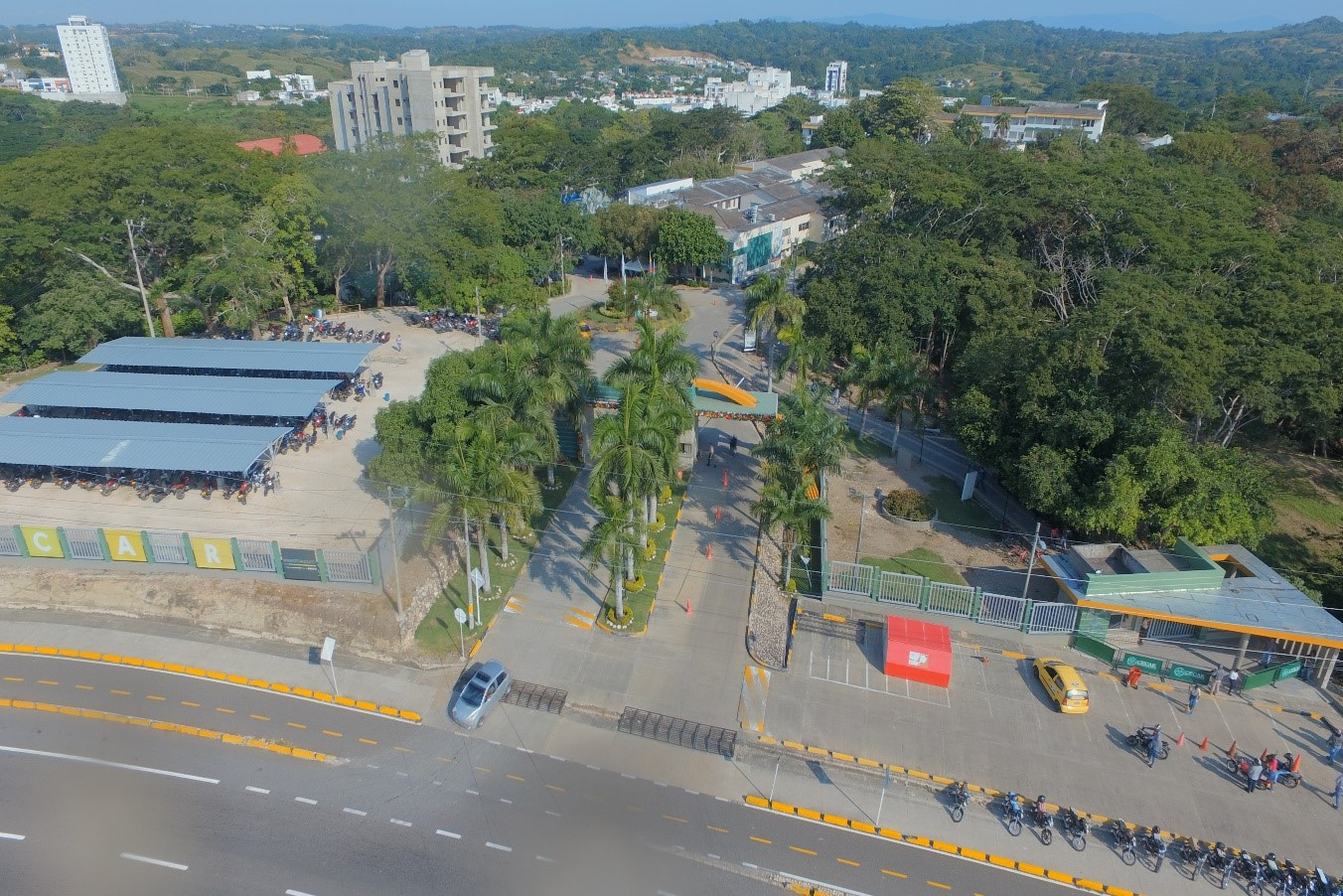 CECAR